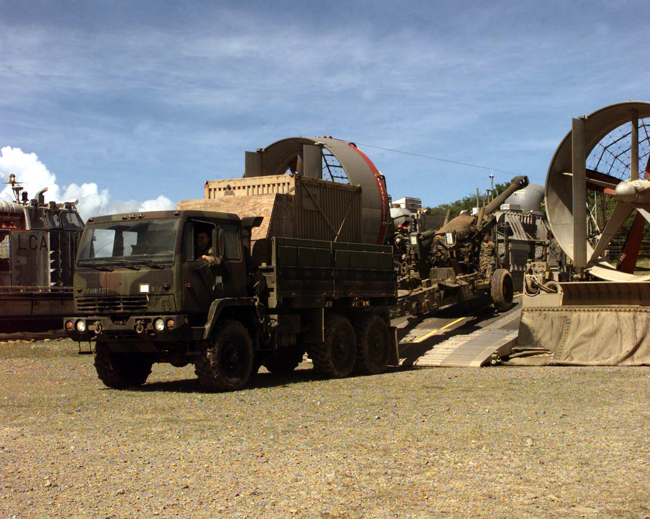 U.S. Army soldiers from B Battery use a 5-ton vehicle to pull a M-198 155 mm howitzer off of a U.S. Navy Landing Craft Air Cushion on Jan. 21, 1998, during Joint Task Force Exercise 98-1. The Landing Craft Air Cushion, more commonly known as an LCAC, transported B Battery and their equipment from Vieques Island to Roosevelt Roads, Puerto Rico, after a joint, live fire exercise with the 26th Marine Expeditionary Unit. More than 30,000 U.S. military personnel are participating in the exercise which is testing joint forces on their ability to deploy rapidly and conduct joint operations during a crisis. All branches of the armed forces are training side-by-side using the latest advances in technology in a simulated high-threat environment that involves air, naval and ground operations. B Battery is attached to the 1st Battalion, 377th Field Artillery Regiment (Air Assault), Fort Bragg, N.C. The 26th Marine Expeditionary Unit is from Camp Lejeune, N.C.